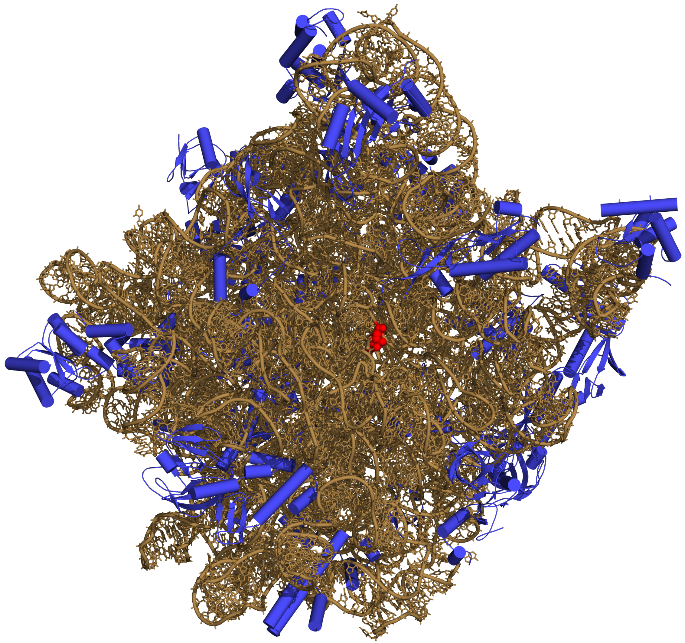 large ribosomal subunit (50S) of Haloarcula marismortui, facing the 30S subunit. The ribosomal proteins are shown in blue, the rRNA in ochre, the active site (A 2486) in red. Data were taken from PDB: 3CC2​, redered with PyMOL.